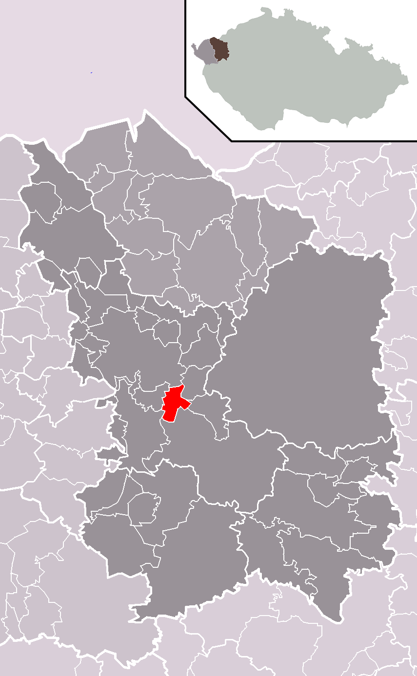 Location of Pila municipality within Karlovy Vary District and administrative area of Karlovy Vary as a Municipality with Extended Competence.